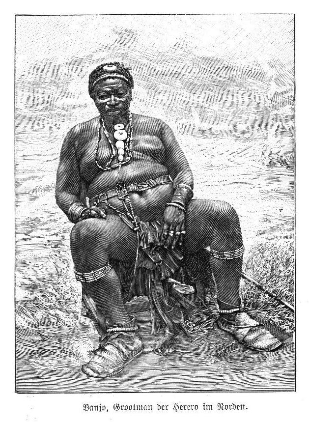 Nama - Herero-chief Banjo before 1897